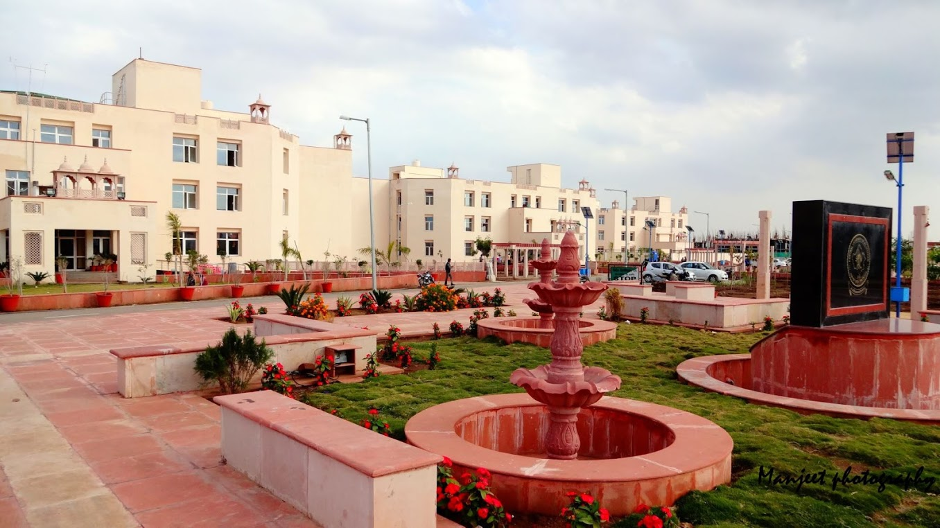 Building No. 2-4(Semi permanent)